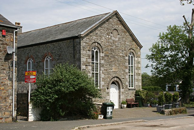 Another Ex Methodist Church. This church has been converted into private residences. Quite a common fate for these places of worship.